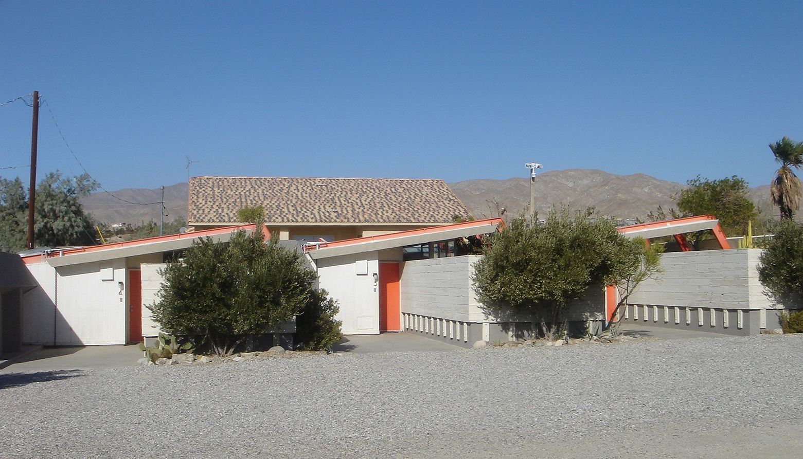 John Lautner designed this 4-room motel to Desert Hot Springs.